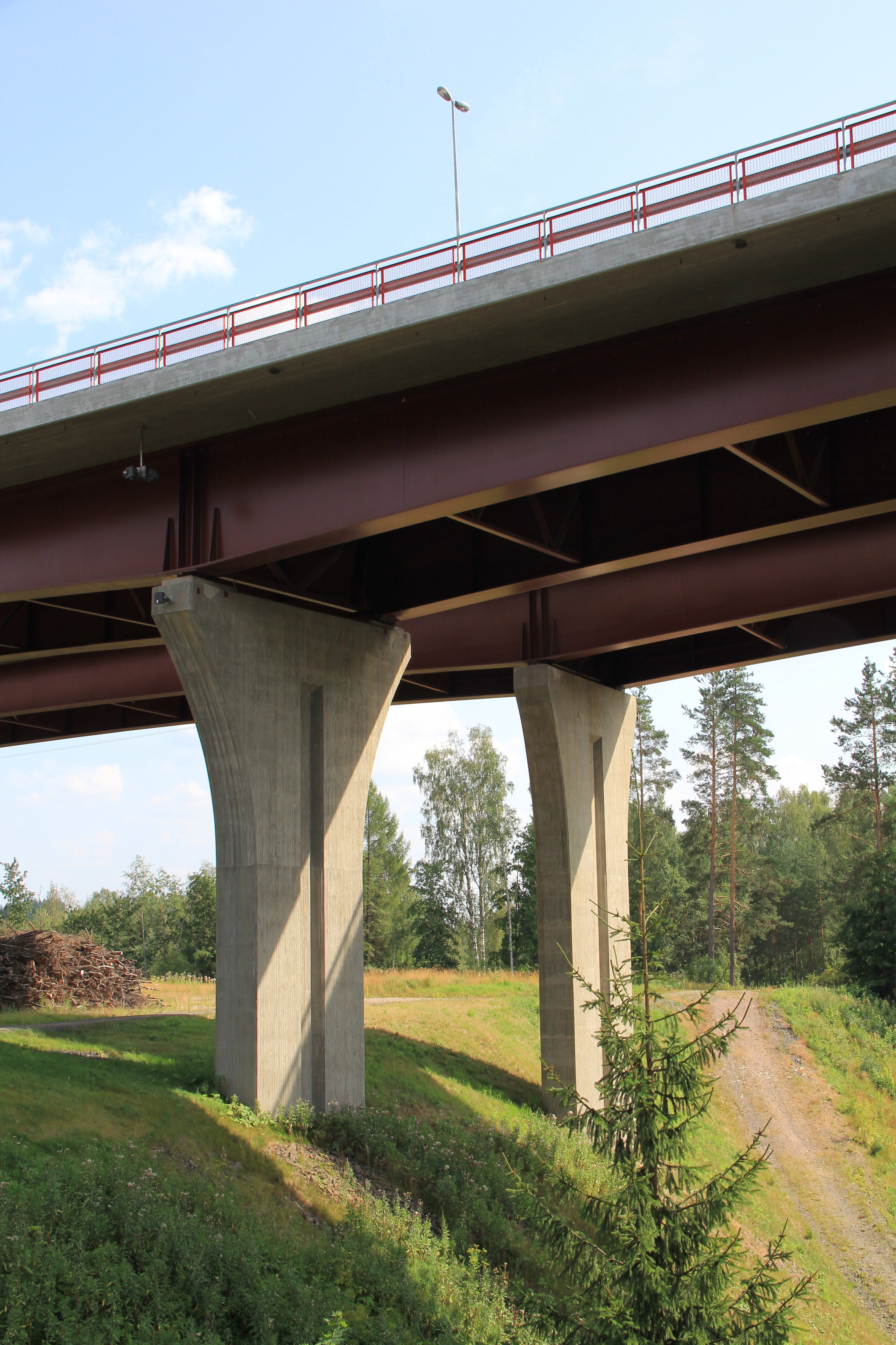 Road bridges over Saimaa canal near Mälkiä lock, Lappeenranta, Finland. Bridges completed in 2010 (front) and 2008 (back)